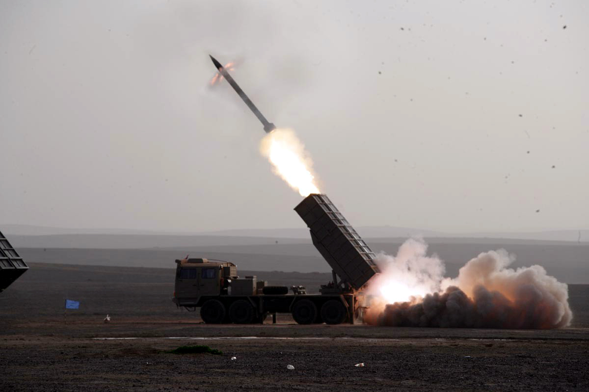 WM-120 MLRS IN JORDAN